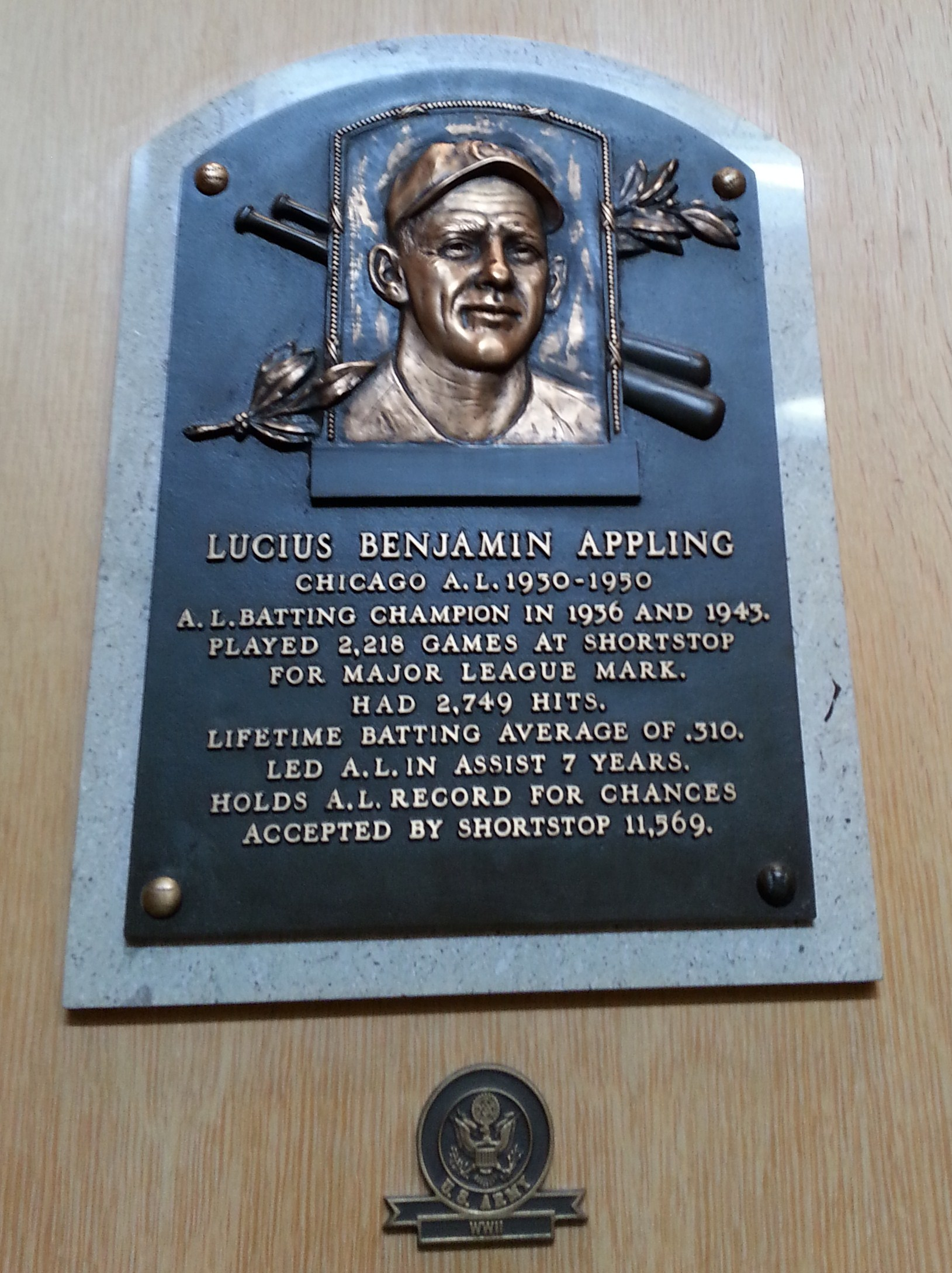 Luke Appling plaque in the National Baseball Hall of Fame